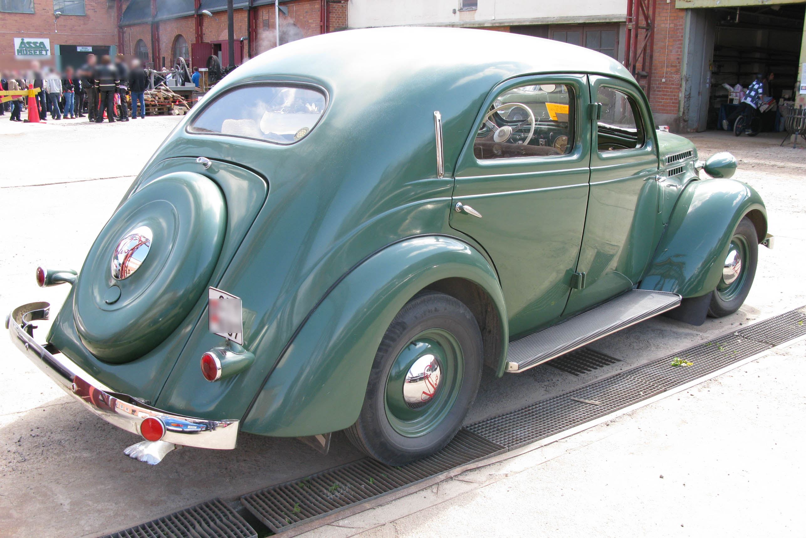 1938 Volvo PV52.